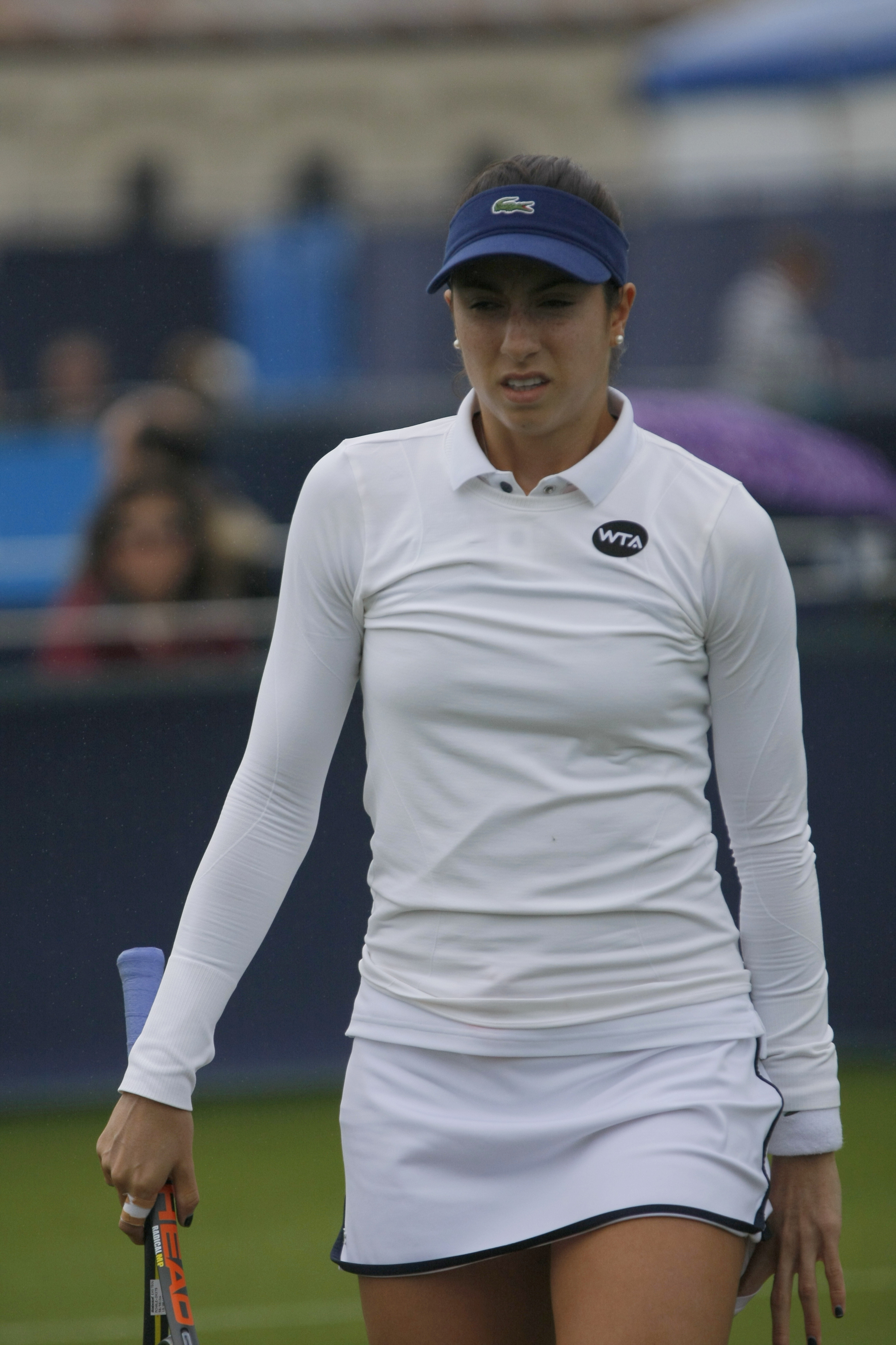 Aegon International Tennis, Devonshire Park, Eastbourne June 2015 Aegon International Tennis, Devonshire Park, Eastbourne June 2015